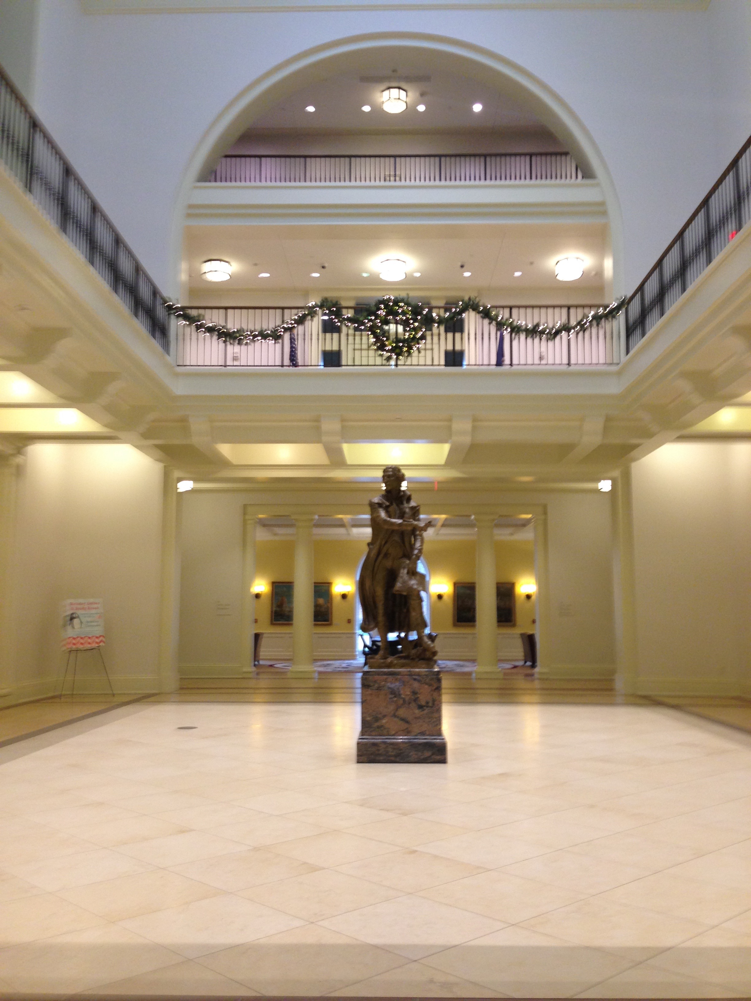 Front Interior Entrance